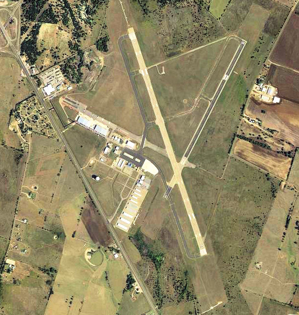 USGS digital orthophoto of Draughon-Miller Central Texas Regional Airport in Texas